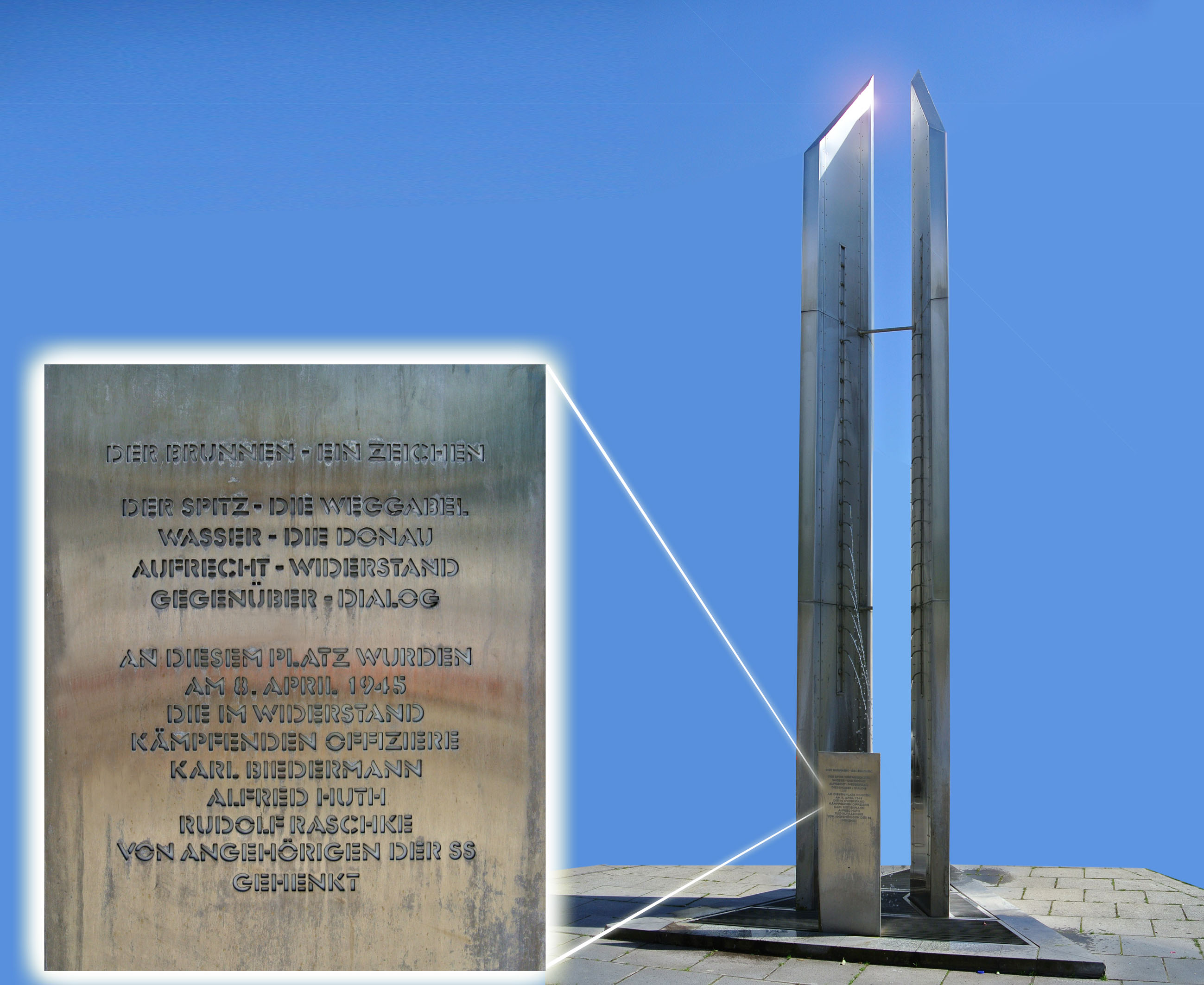 At this place, the fighting in the resistance officers - Karl Biedermann - Alfred Huth - Rudolf Raschke, were on 8.April, 1945, hanged by members of the SS.